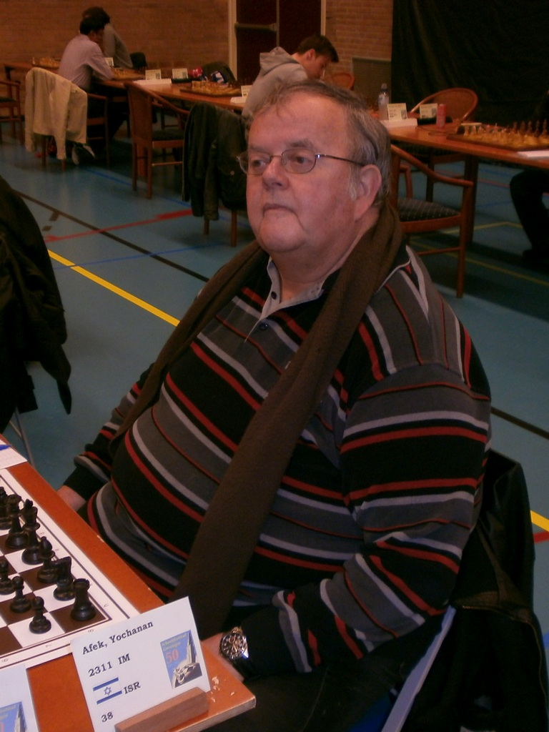 Yochanan Afek playing in the Groningen Chess Festival 2012 in Groningen (the Netherlands)